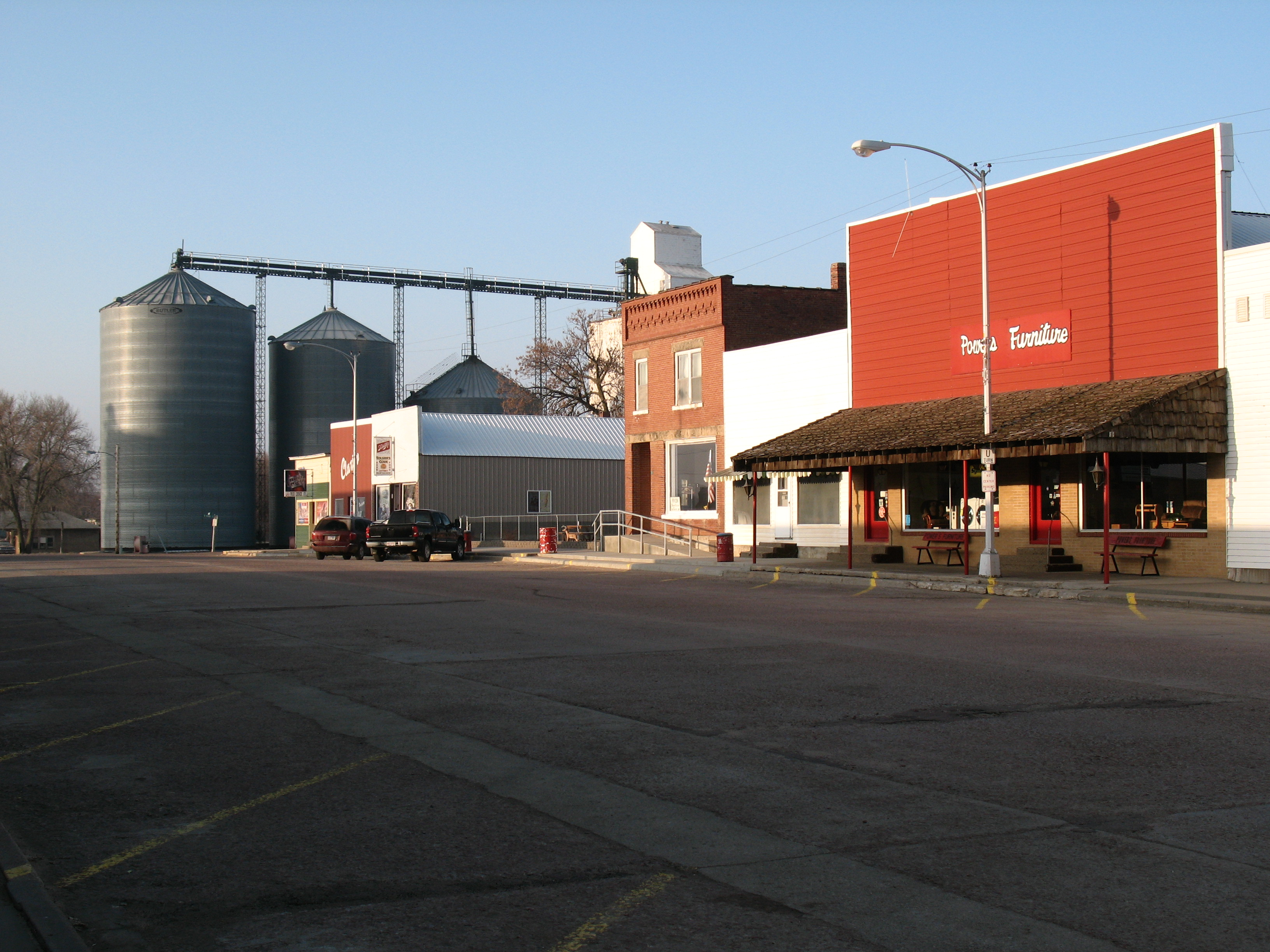 Main street in Avon, South Dakota.